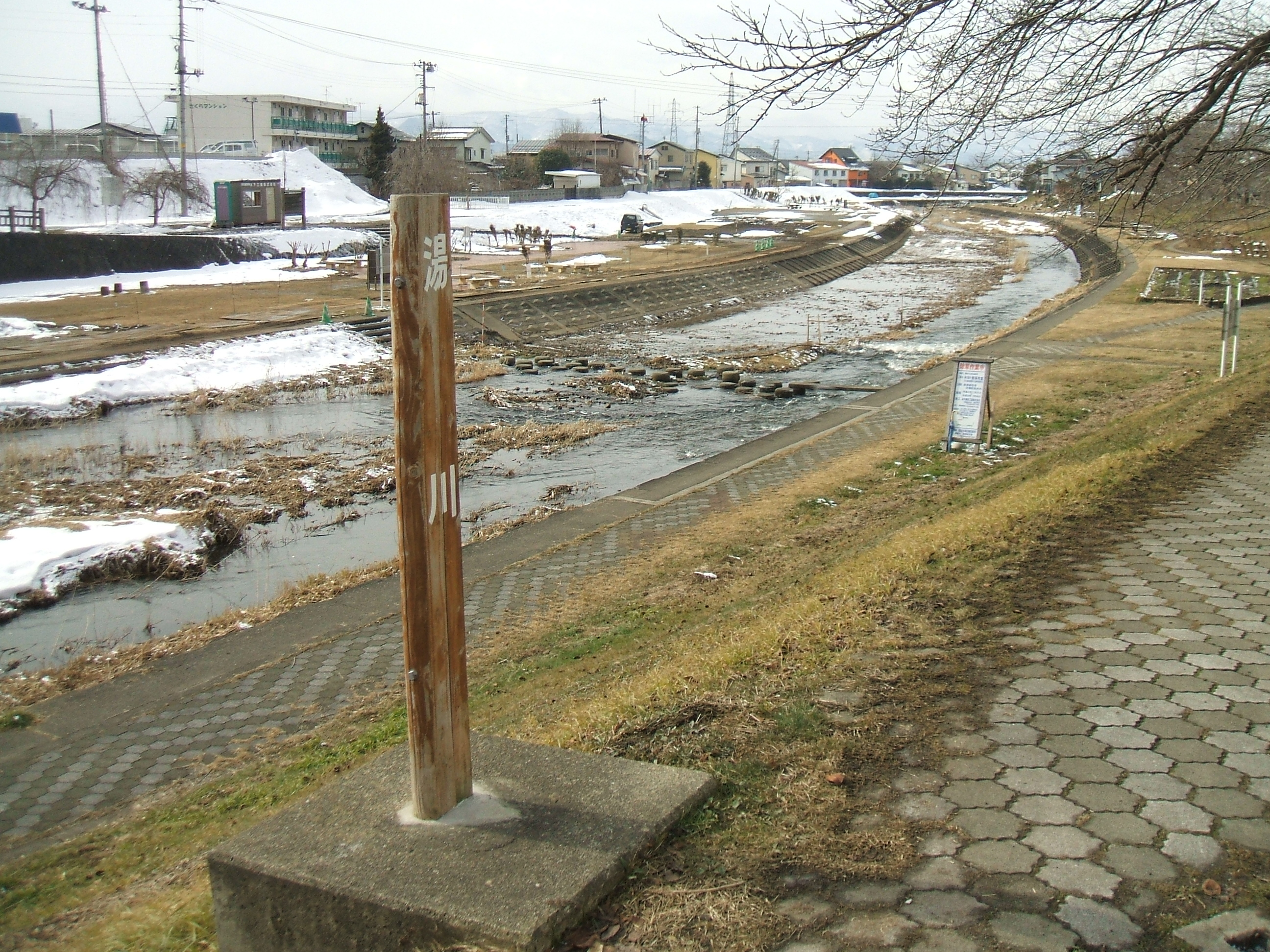 This is a landscape of Yugawa. It's taken at Aizuwakamatsu, Fukushima.